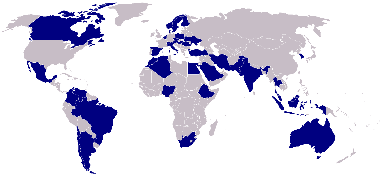 Legenda: The Middle powers in the international relations.